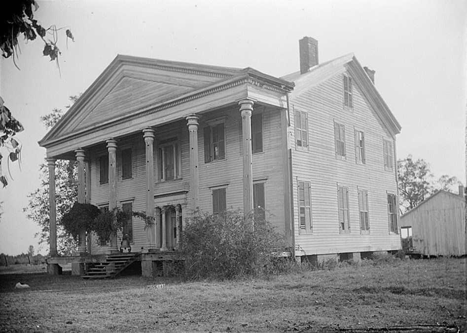 Burris House, Benoit (Bolivar County, Mississippi) - (cropped) also known as "Hollywood" Image courtesy of Historic American Buildings Survey—HABS. Credits NRIS: 75001041, HABS MISS,6-BENO,1-1 This file comes from the Historic American Buildings Survey (HABS), Historic American Engineering Record (HAER) or Historic American Landscapes Survey (HALS). These are programs of the National Park Service established for the purpose of documenting historic places. Records consist of measured drawings, archival photographs, and written reports. When reusing please credit: Library of Congress, Prints & Photographs Division, MS-140 This tag does not indicate the copyright status of the attached work. A normal copyright tag is still required. See Commons:Licensing. This work is in the public domain in the United States because it is a work prepared by an officer or employee of the United States Government as part of that person’s official duties under the terms of Title 17, Chapter 1, Section 105 of the US Code. Note: This only applies to original works of the Federal Government and not to the work of any individual U.S. state, territory, commonwealth, county, municipality, or any other subdivision. This template also does not apply to postage stamp designs published by the United States Postal Service since 1978. (See § 313.6(C)(1) of Compendium of U.S. Copyright Office Practices). It also does not apply to certain US coins; see The US Mint Terms of Use. This file has been identified as being free of known restrictions under copyright law, including all related and neighboring rights.